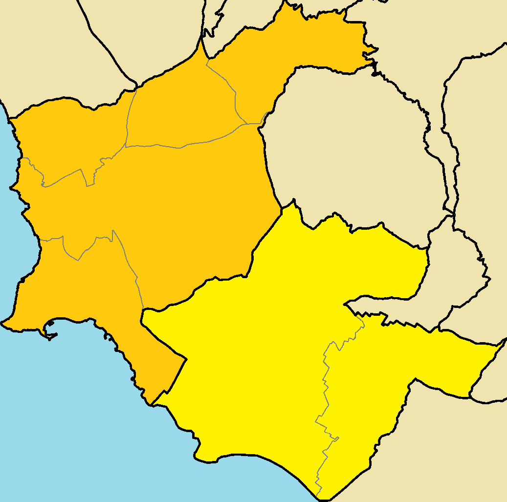 Paphos and Geroskipou municipalities with their quarters.